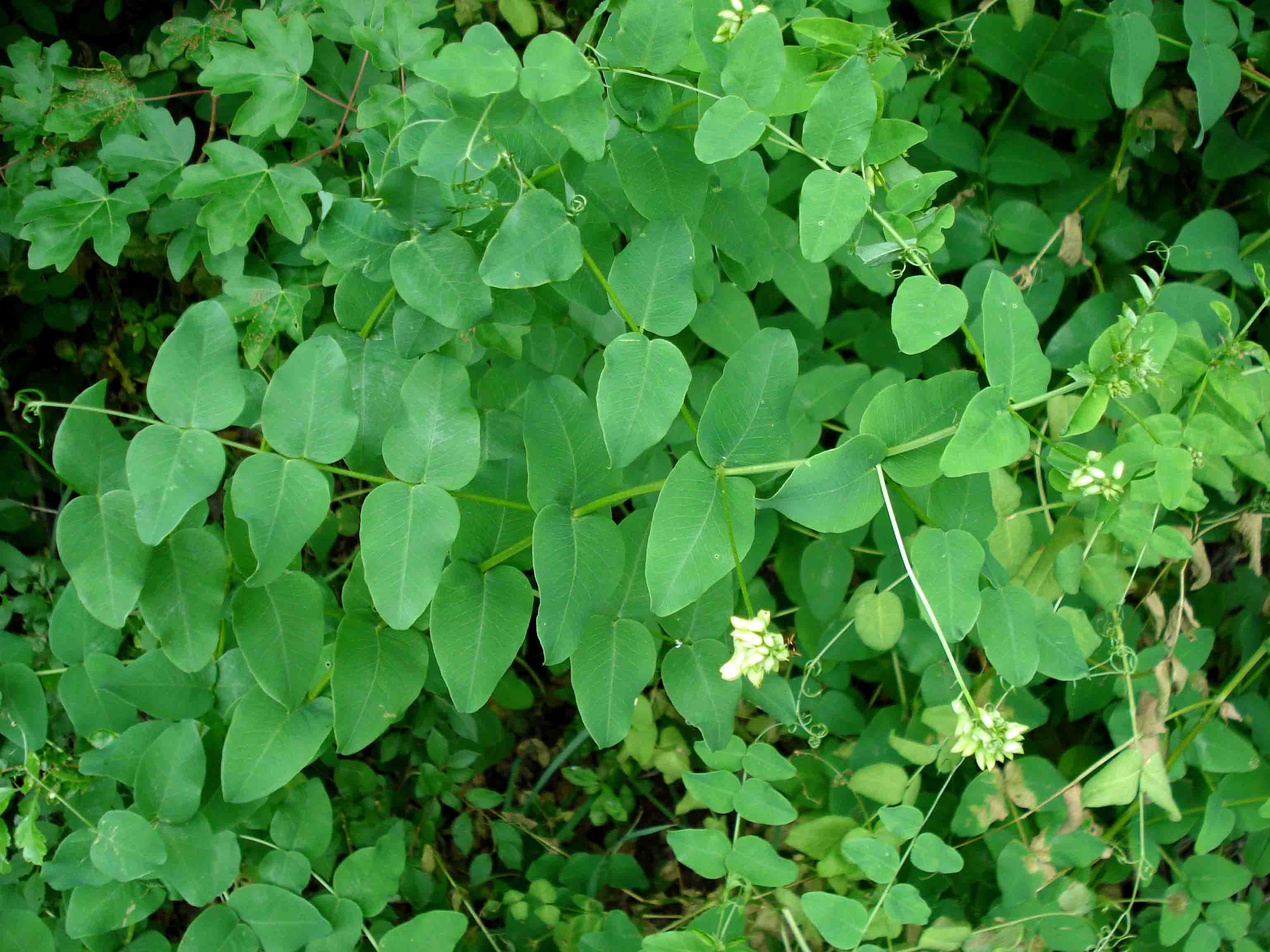 Vicia pisiformis (Unterfranken, Germany)